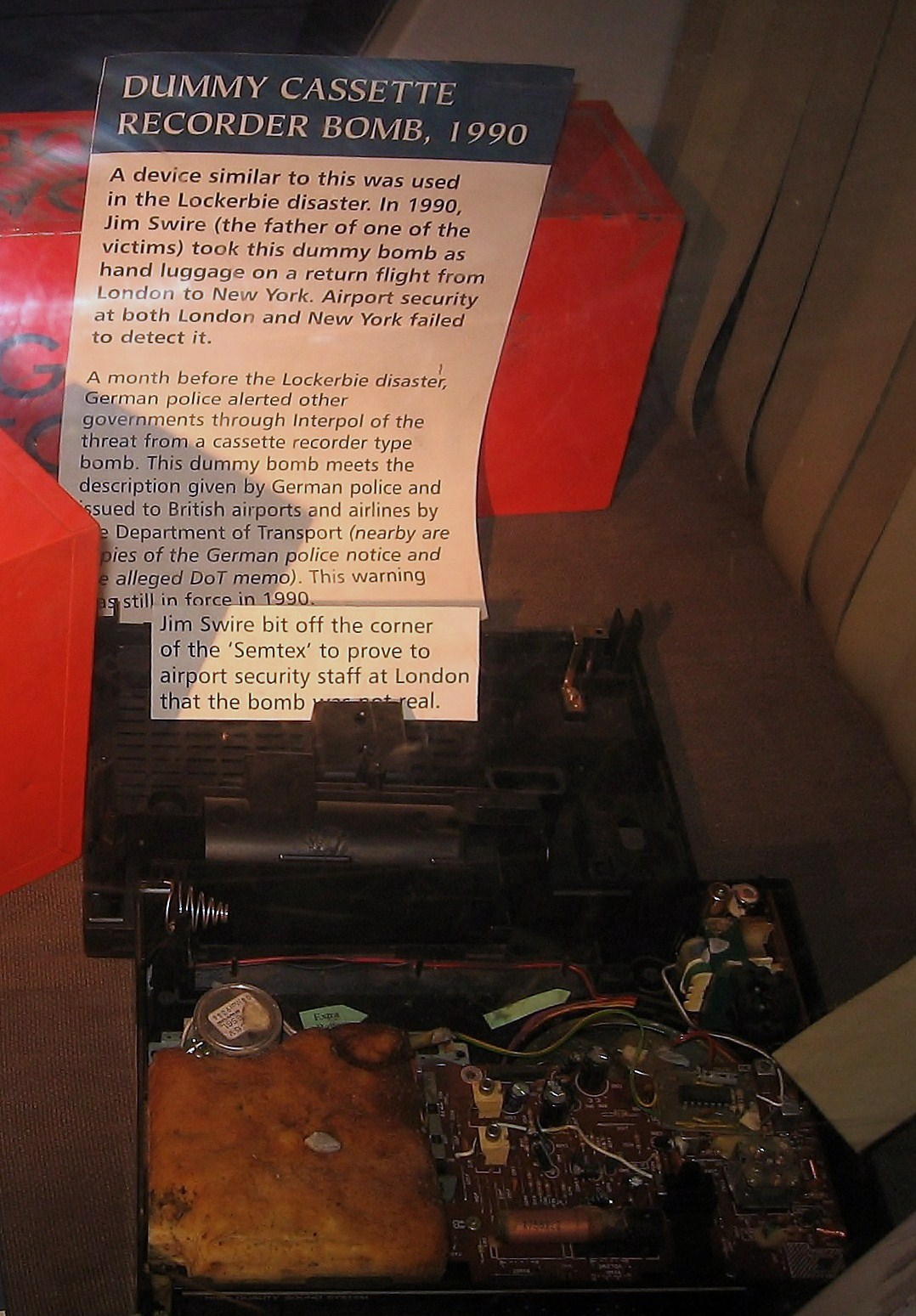 Cassette player similar to the one used in the Lockerbie disaster as shown in the Glasgow Museum of Transport